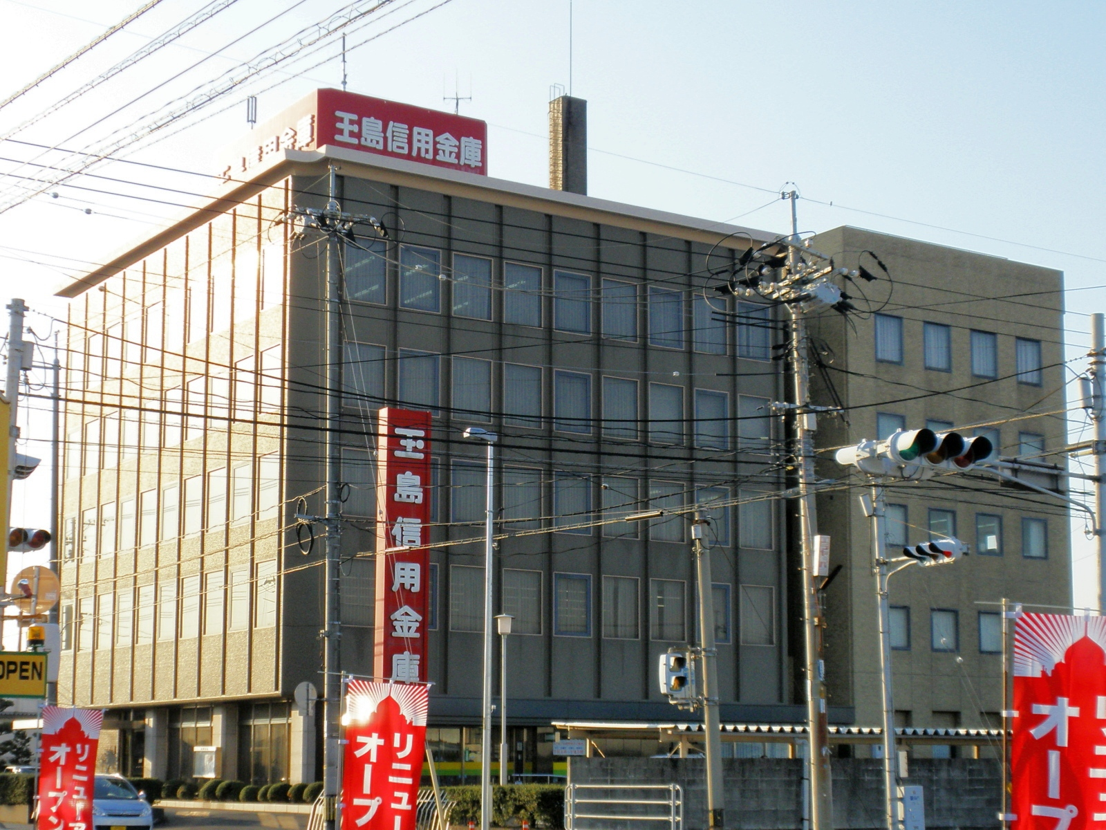 Tamashima Shinkin Bank head store in Tamashima, Kurashiki.